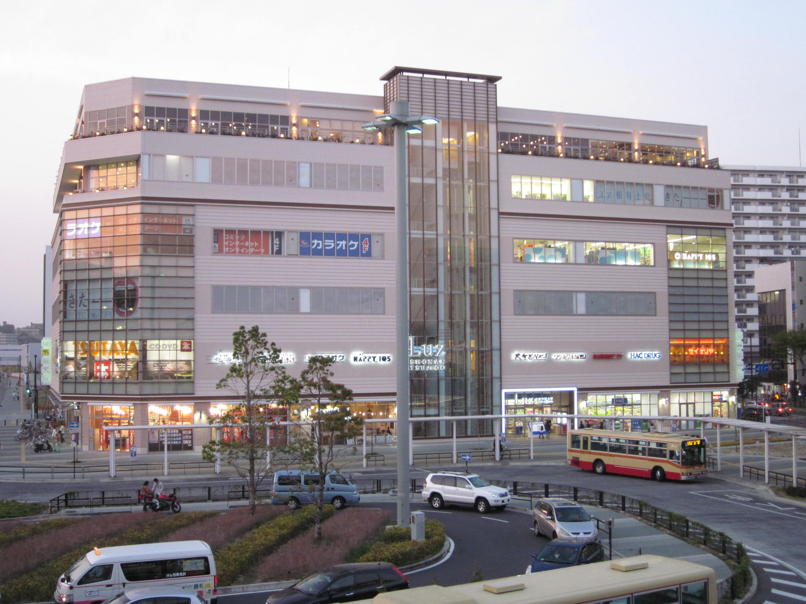 Luz SHONAN TSUJIDO, Fujisawa city, Kanagawa pref., Japan